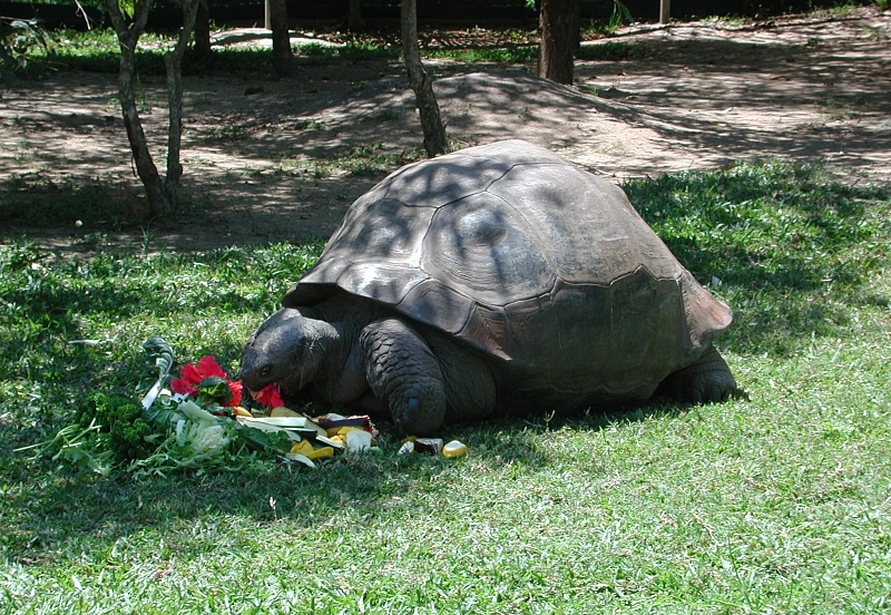 Geochelone nigra - Harriet, a specimen allegedly collected by Charles Darwin, at the Australia Zoo, Queensland, Australia. Died June 23, 2006.